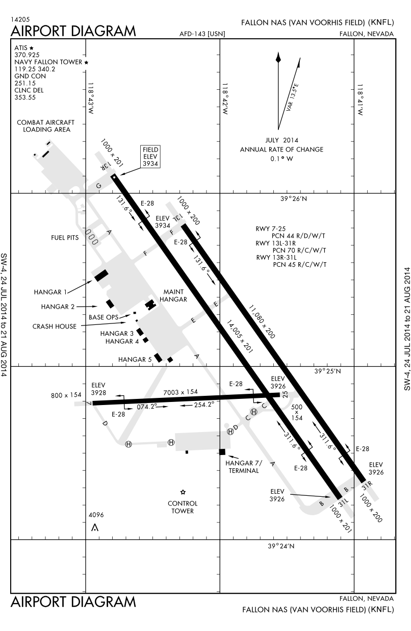 FAA airport diagram for NFL (Naval Air Station Fallon) in Nevada, United States. Effective 24 July 2014 through 21 August 2014.